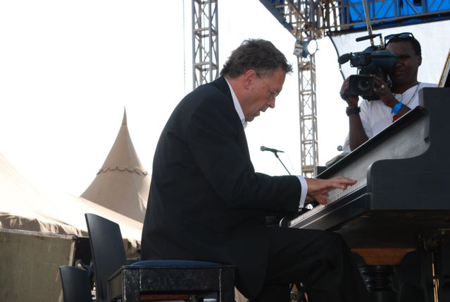 A photo of norwegian pianist Geir Botnen during a concert in Nairobi, Kenya